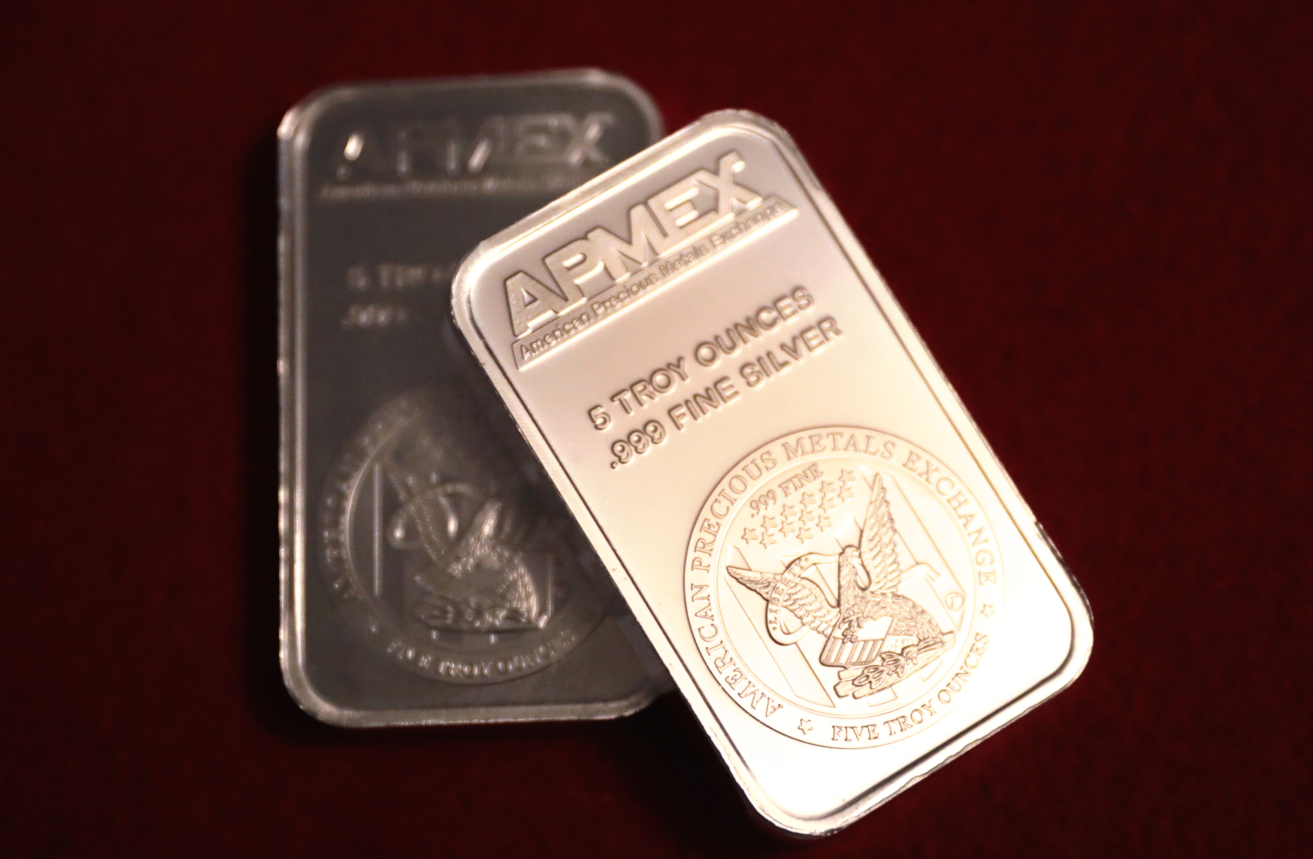 Two five ounce silver APMEX bars.